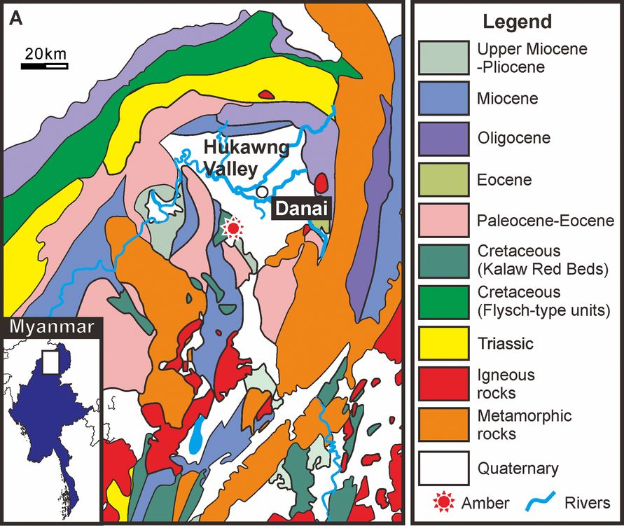 Geological and paleogeographic maps of Burmese amber. (A) Geological map showing the position of Burmese amber in Hukawng Valley, northern Myanmar. (B) Paleogeographic map showing the position (red triangle) of Burmese amber site during Late Albian (Figure 1)